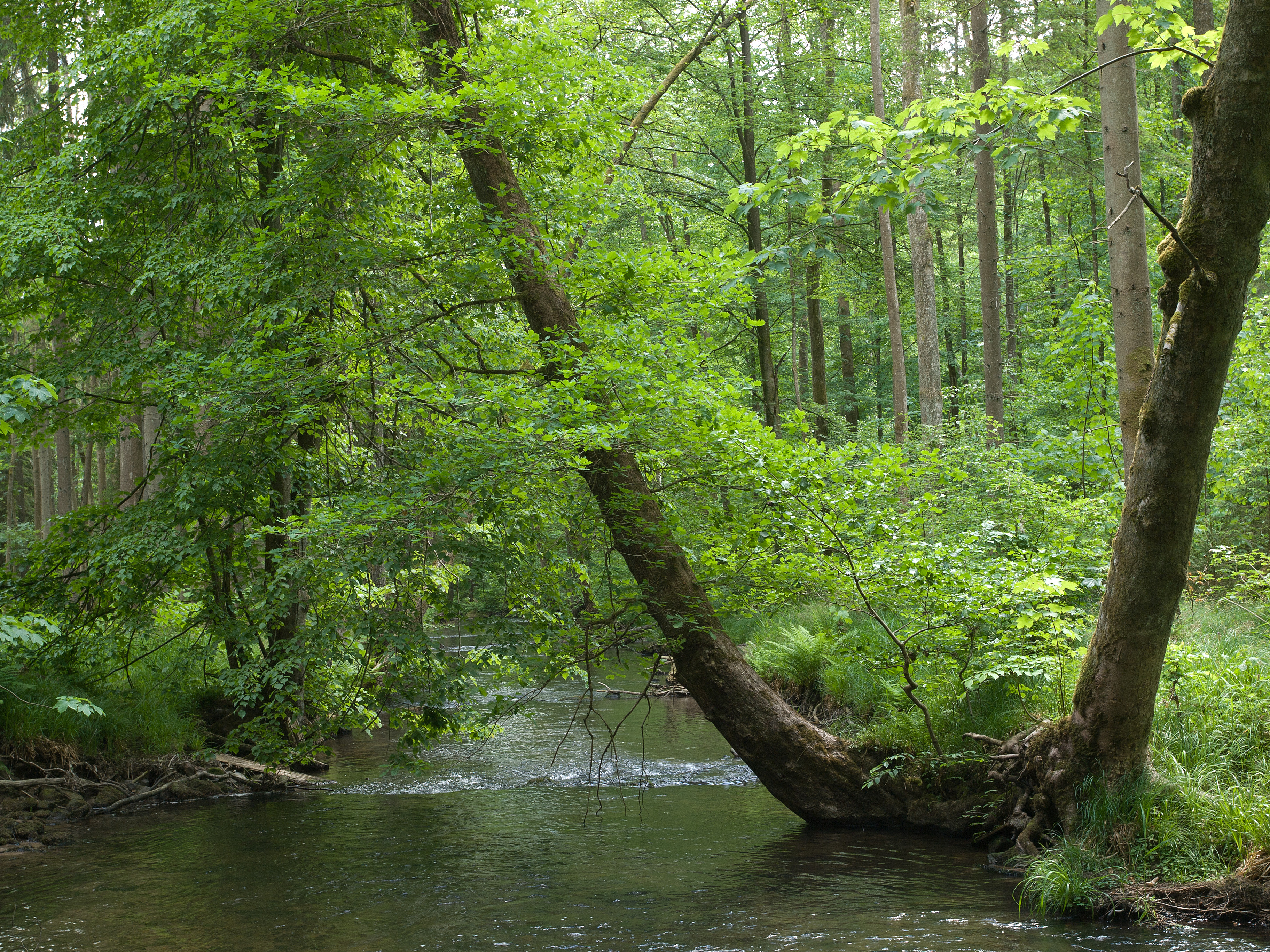 Hafenlohr, A small river in Northern Bavaria